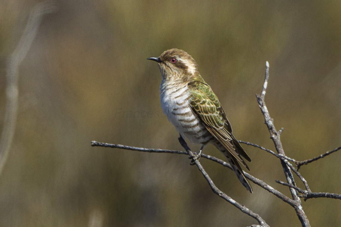 Horsfield's Bronze-Cuckoo - Little Desert NP - Victoria_S4E4465